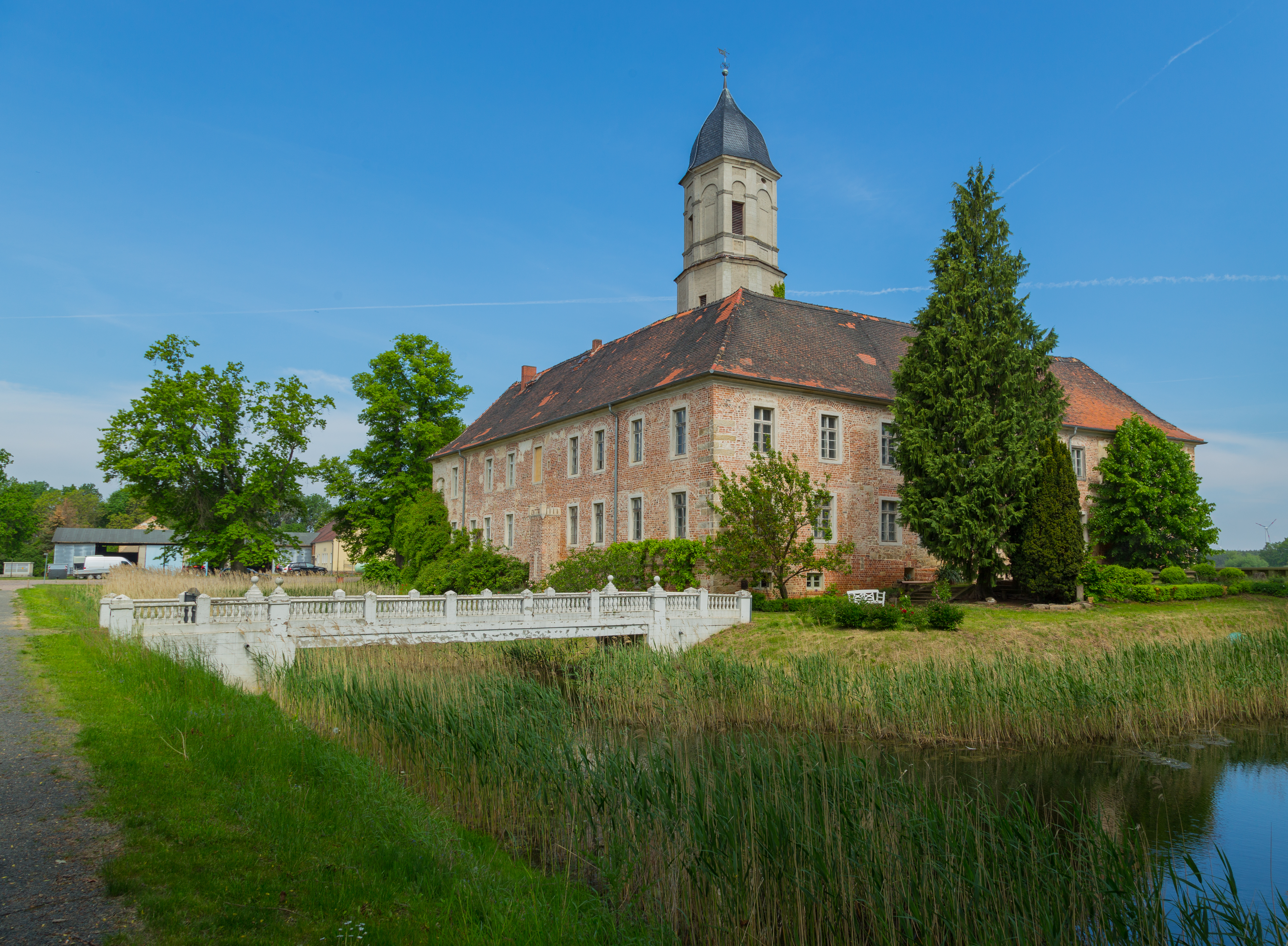 Hemsendorf Castle in Hemsendorf, district of Jessen (Elster), Landkreis Wittenberg, Saxony-Anhalt, Germany.